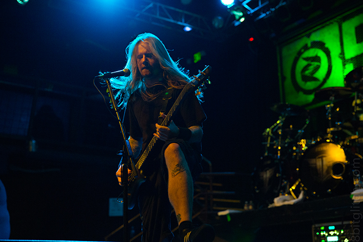 DeVries performing with Fear Factory in 2013